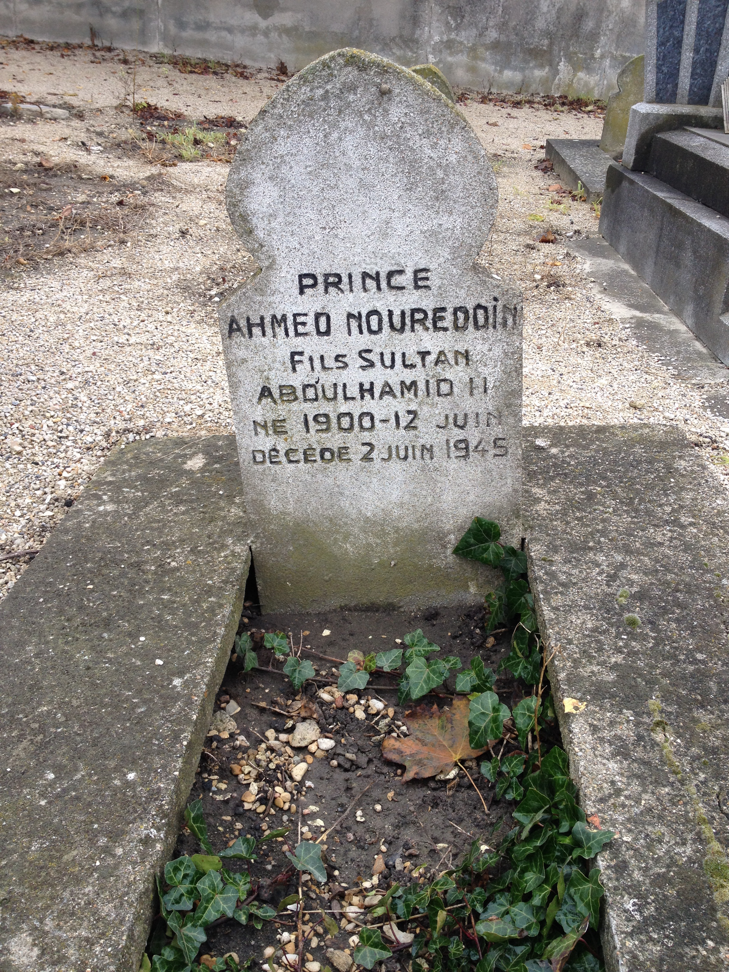 Grave of Prince Şehzade Ahmed Nureddin Efendi (Constantinople, Yıldız Palace, 12 June 1900 – 2 June 1945), son of Sultan Abdul Hamid II (1842-1918) and his twelfth wife Behice Hanımefendi (1882-1969), at the Islamic cemetery of the Parisian suburb Bobigny, France.